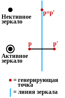 this is geometria figur